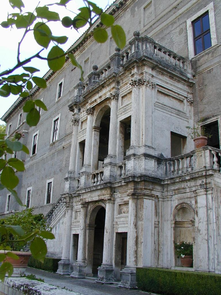 Tivoli, Villa d'Este - the facade from the garden